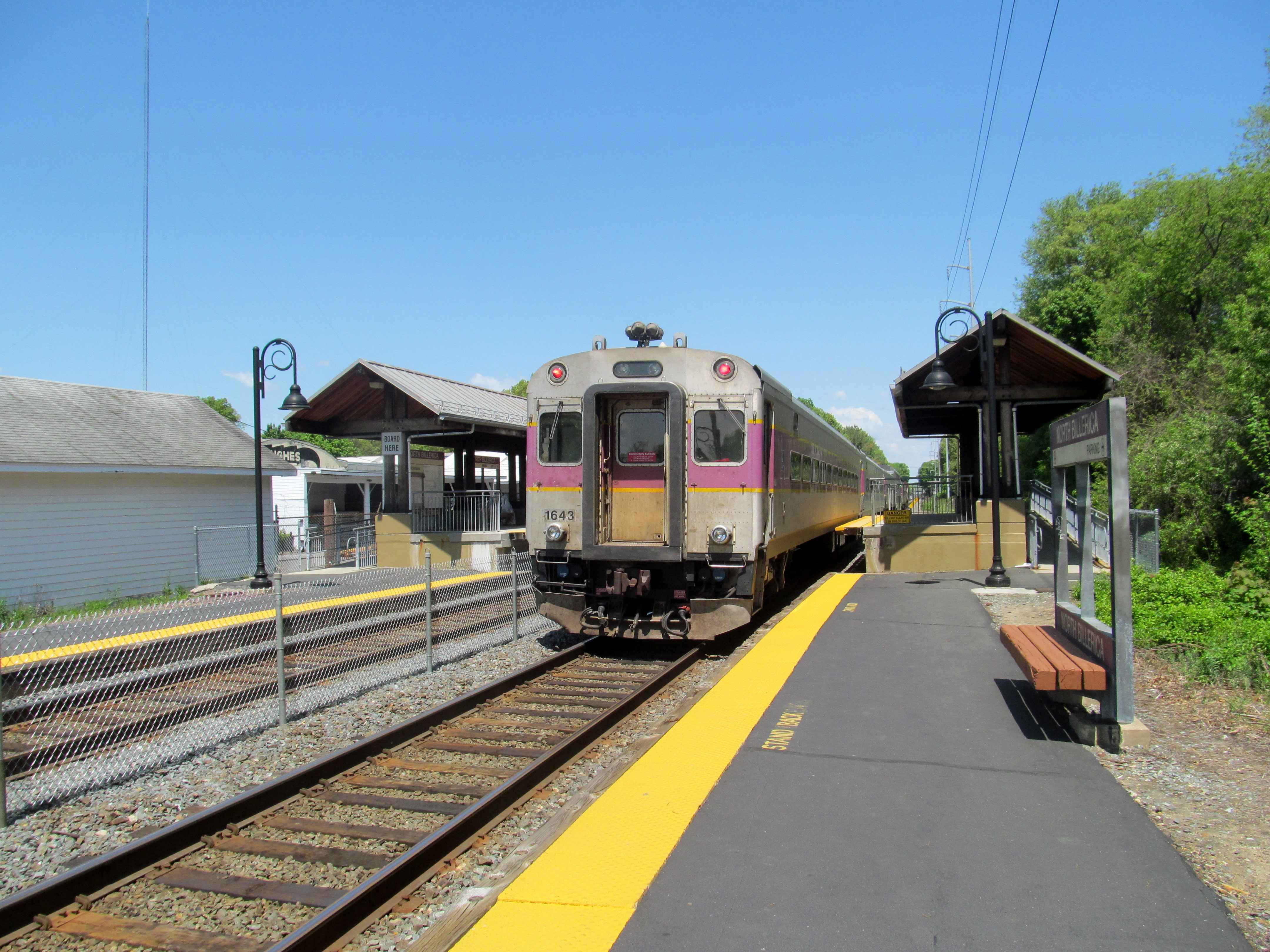 An outbound train at North Billerica station in May 2016